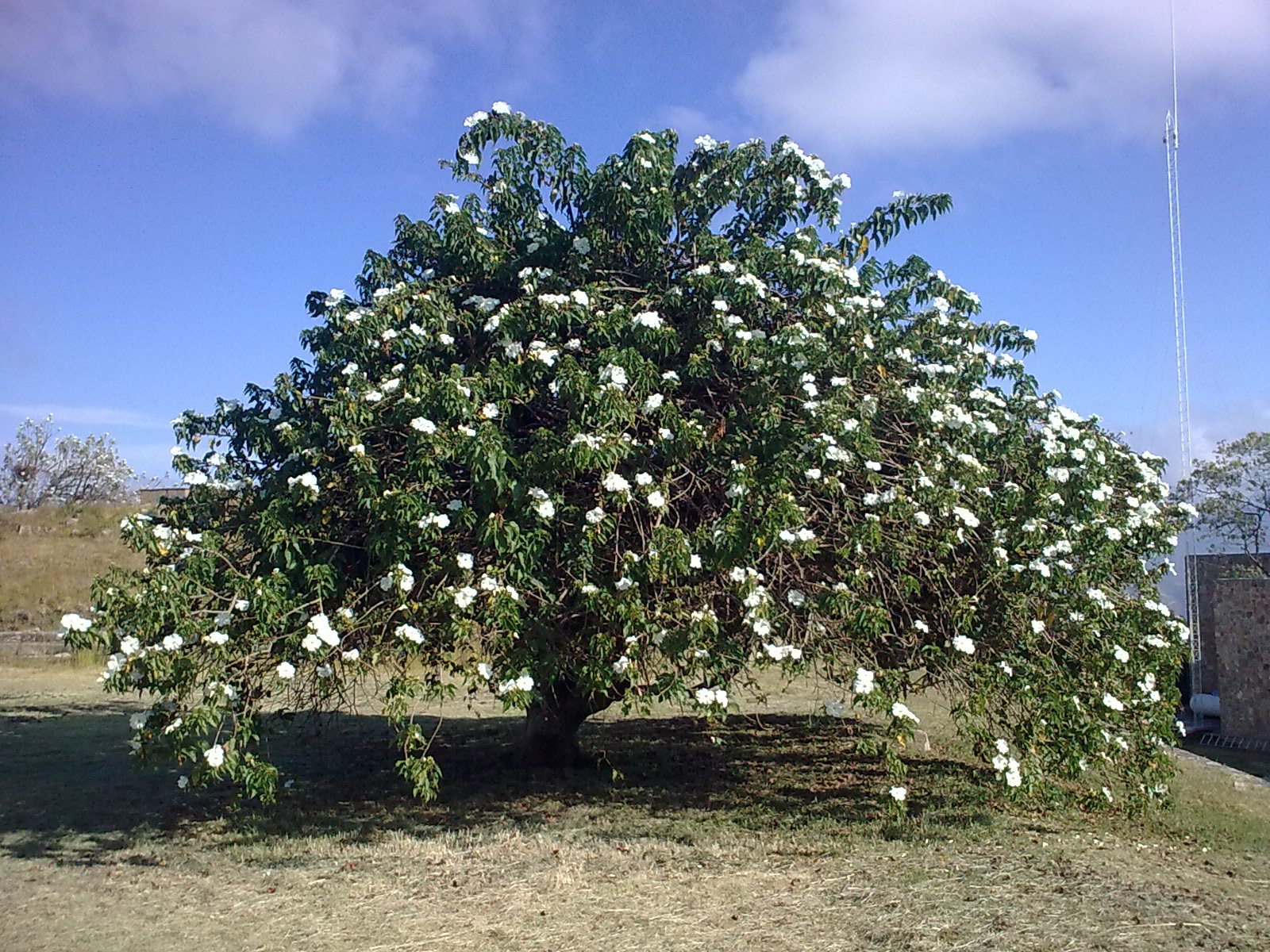 Ipomoea arborescence tree, Monte Alban, Oaxaca, Mexico